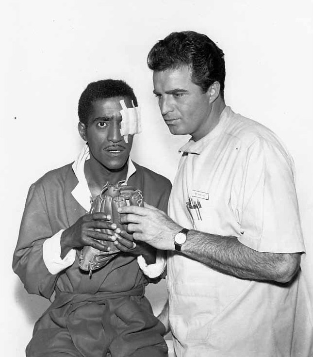 Photo of Vince Edwards as Ben Casey with guest star Sammy Davis, Jr. from the television program Ben Casey.